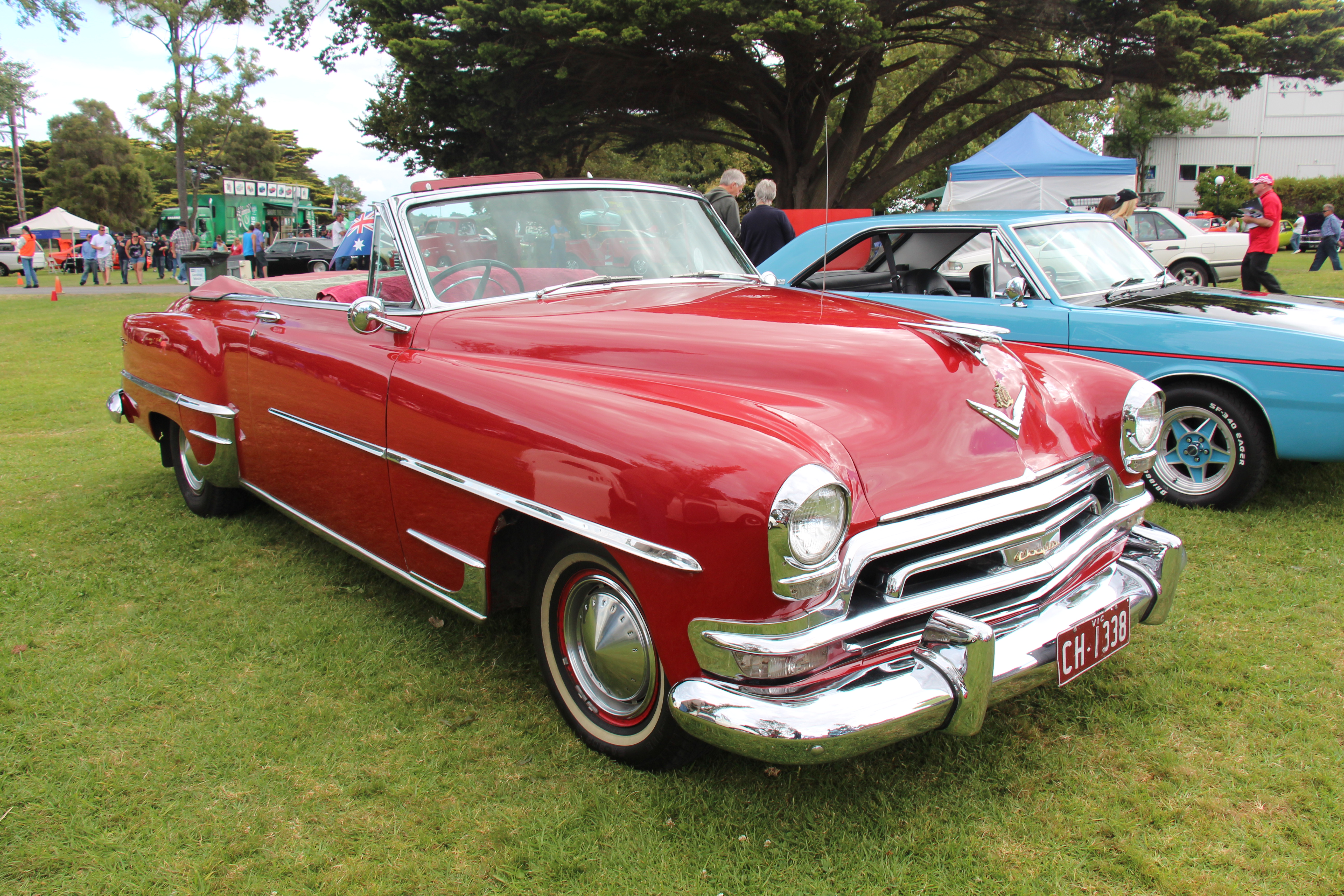 The 2nd generation New Yorkers were built from 1949-54, The New Yorker was the upper spec 8 cylinder model. Base model was the Windsor, then Saratoga and top spec was the Crown Imperial. A major facelift to the New Yorker in 1953 saw a less bulky look, new fenders and 1 piece windshield. (available in Standard or Deluxe) In 1954 it got a front end update and new chrome.(now only available in Deluxe) Engine; 323 cu in inline 8 cyl (195hp in Standard and 235hp in Deluxe)